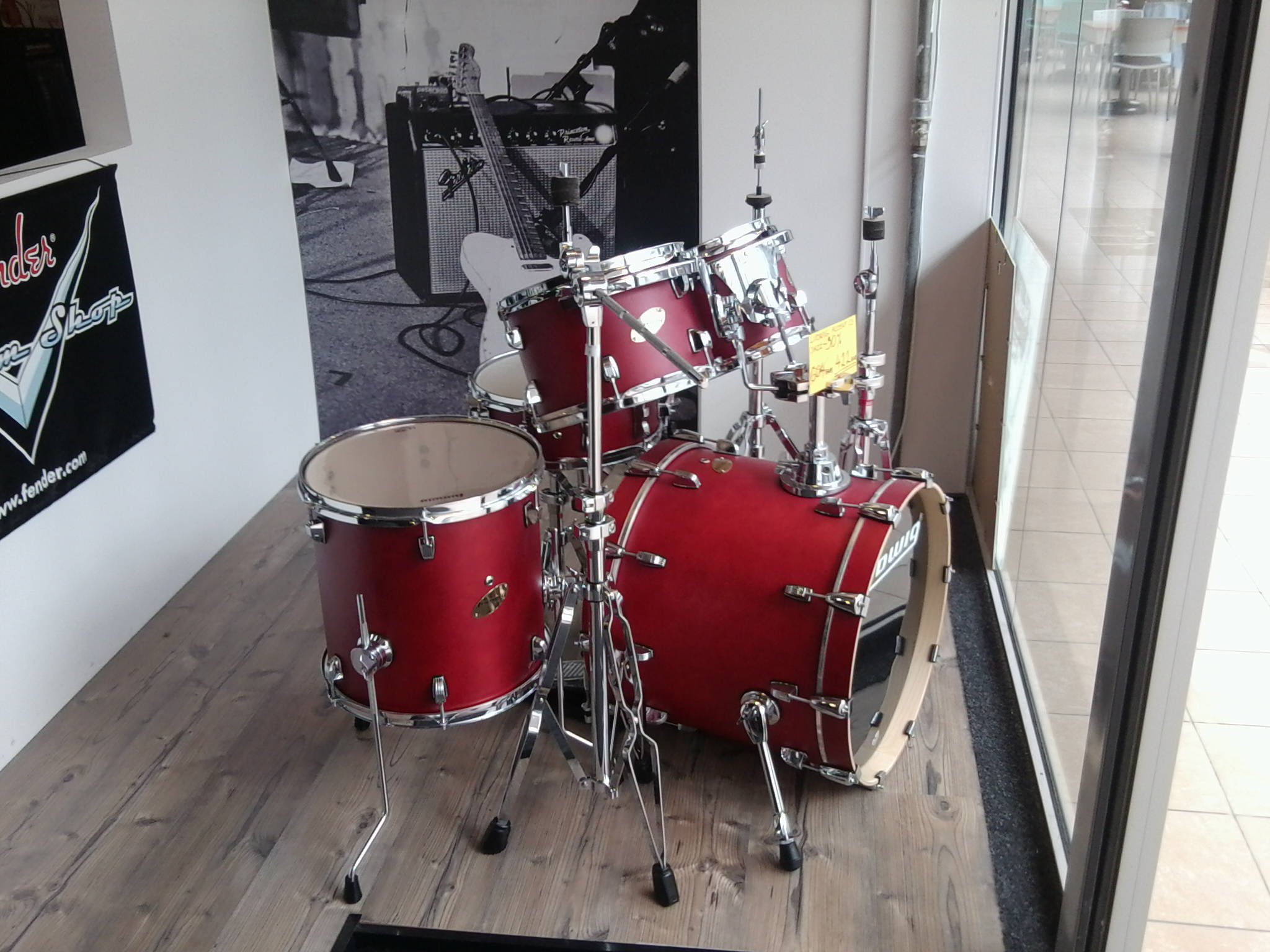 Ludwig Accent CS Custm Jazz Drums Set